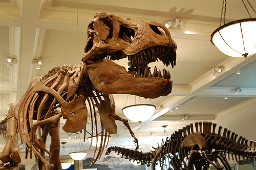 Mounted skeletons of Tyrannosaurus rex (left) and Apatosaurus excelsus (right) at the American Museum of Natural History in New York City.